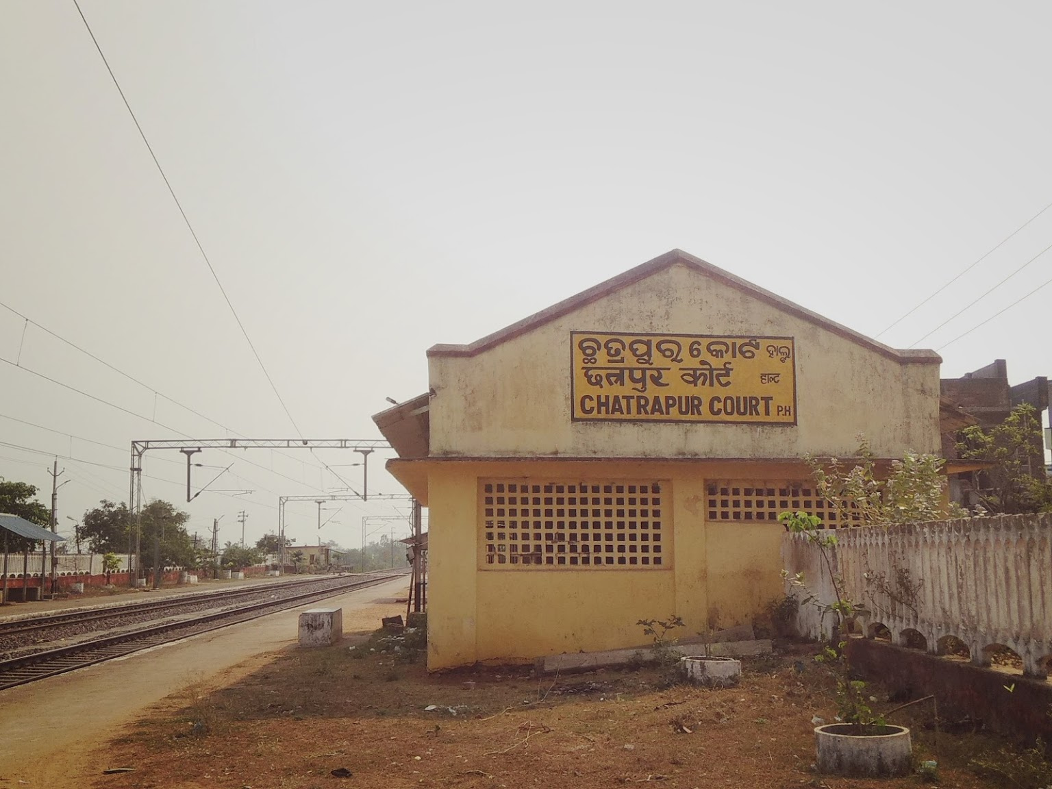 This is the Picture of chhatrapur cort railway station